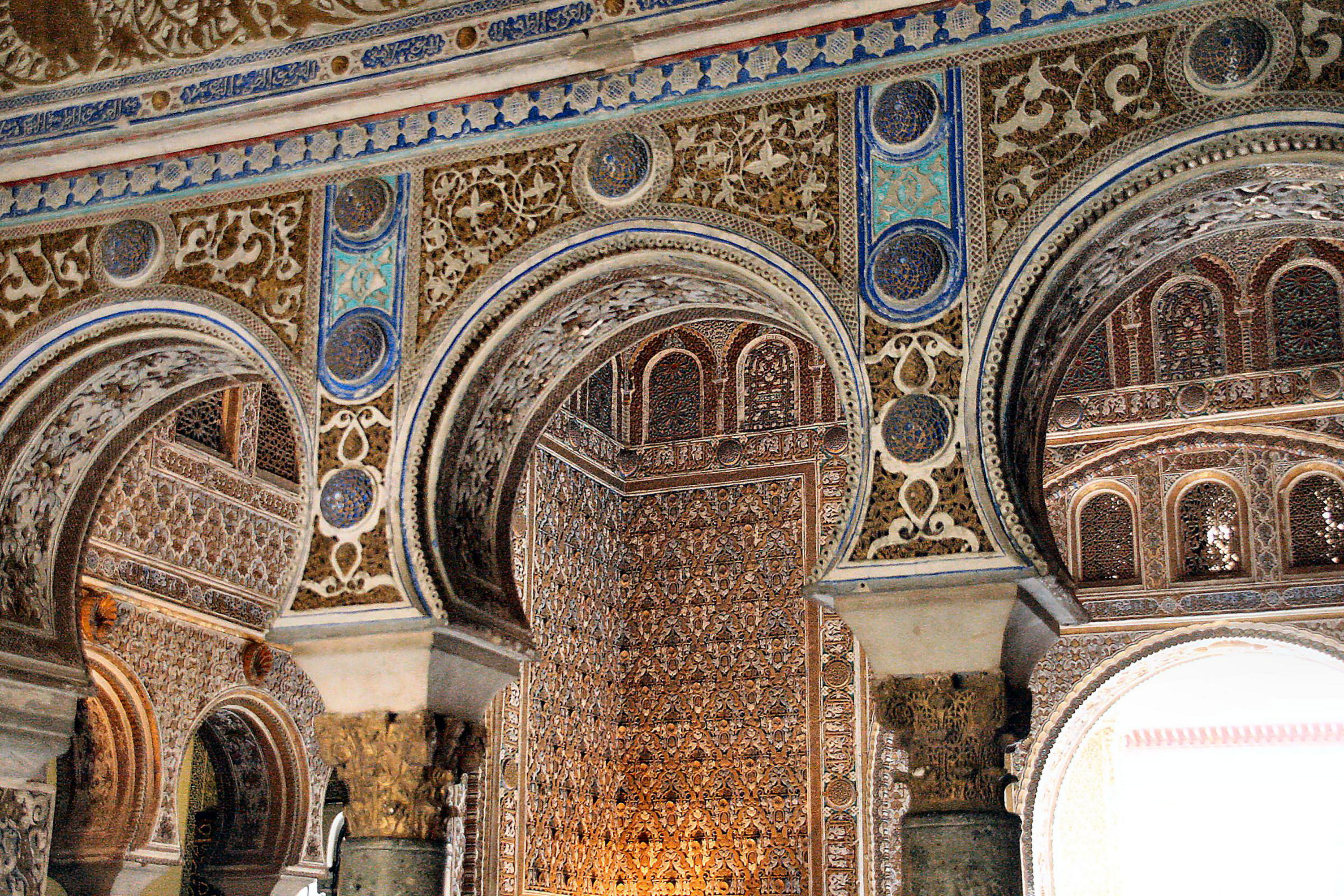 Alcázar of Seville, Spain.